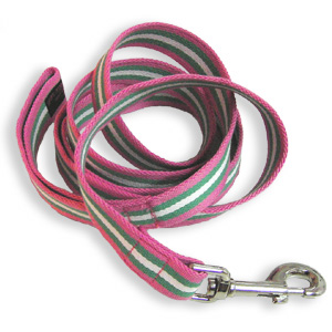 Pink Puppy Designs